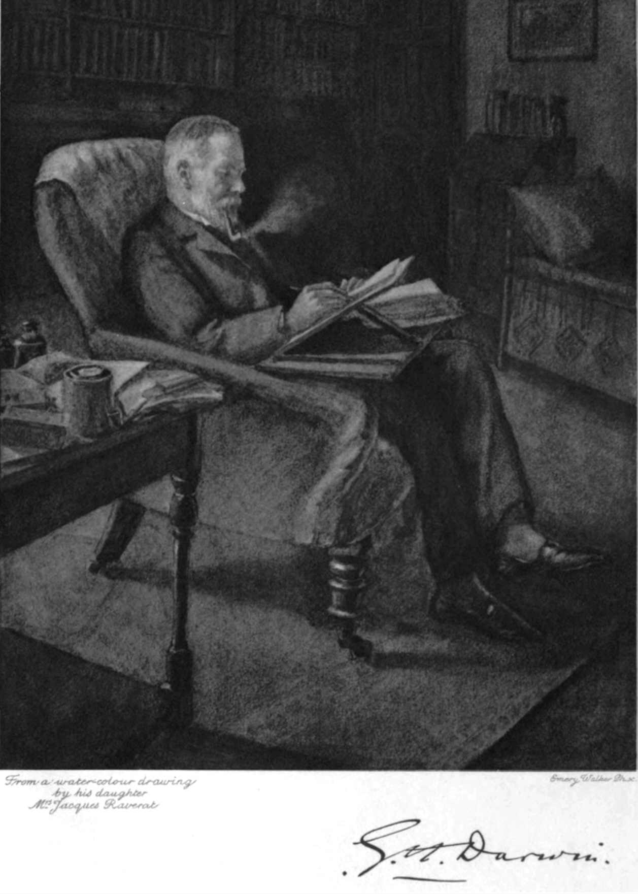 Sir George Darwin (1845 - 1912)